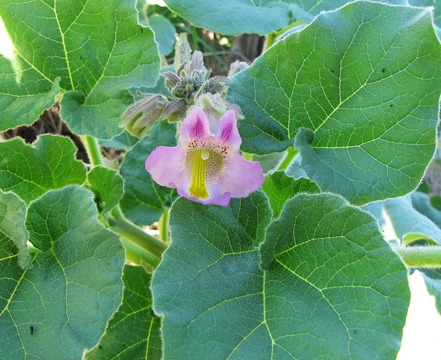 Proboscidea louisianica - A very important traditional indigenous edible and useful plant of the southwest United States. When green the distinctive curve of this fruit earned the name 'unicorn' plant, but when dry the fruits split along the spine to form a double hook, known as the 'double claw' or 'devil's claws', 'ram's horns' that easily catch on anything brushing past to disperse the seeds. (Not to be confused with the African 'devil's claw' of a completely different species and different use.) Like the similar Proboscidea parviflora, 'double claw' fruits when picked young and tender green can be cooked like okra or pickled. Older, larger fruits are allowed to dry. The dried seeds are edible and highly nutritious, and can be eaten dry, crushed for oil or ground into flour. The long, dried curved seed pods are collected for basket-making. These pods are made of an unusually tough fiber and are split along the longest lengths to form dark, rugged cords that are highly valued for traditional Native culture basketry. Proboscidea louisianica is one of several very similar varieties, distinguished by its paler pink flowers with a yellow nectar guide stripe and distinctive red speckling inside. The plant's leaves and fruits are hairy and sticky, but easily washed.